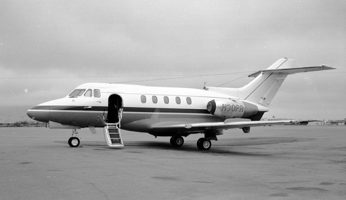 At San Francisco in July 1971.